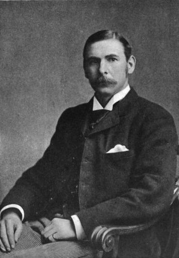 William Christie, from an old engraving